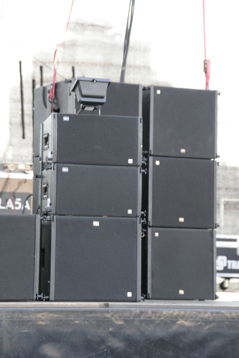 Coda Audio - AIRLINE LA-Series line arrays LA5A-SUB Self-powered subwoofer LA4A-SUB Self-powered subwoofer